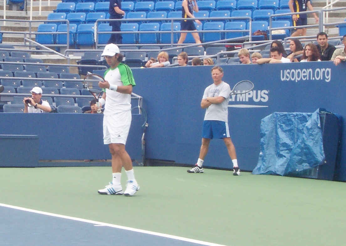 Larry Stefanki coaching Fernando Gonzalez at the US Open 2007